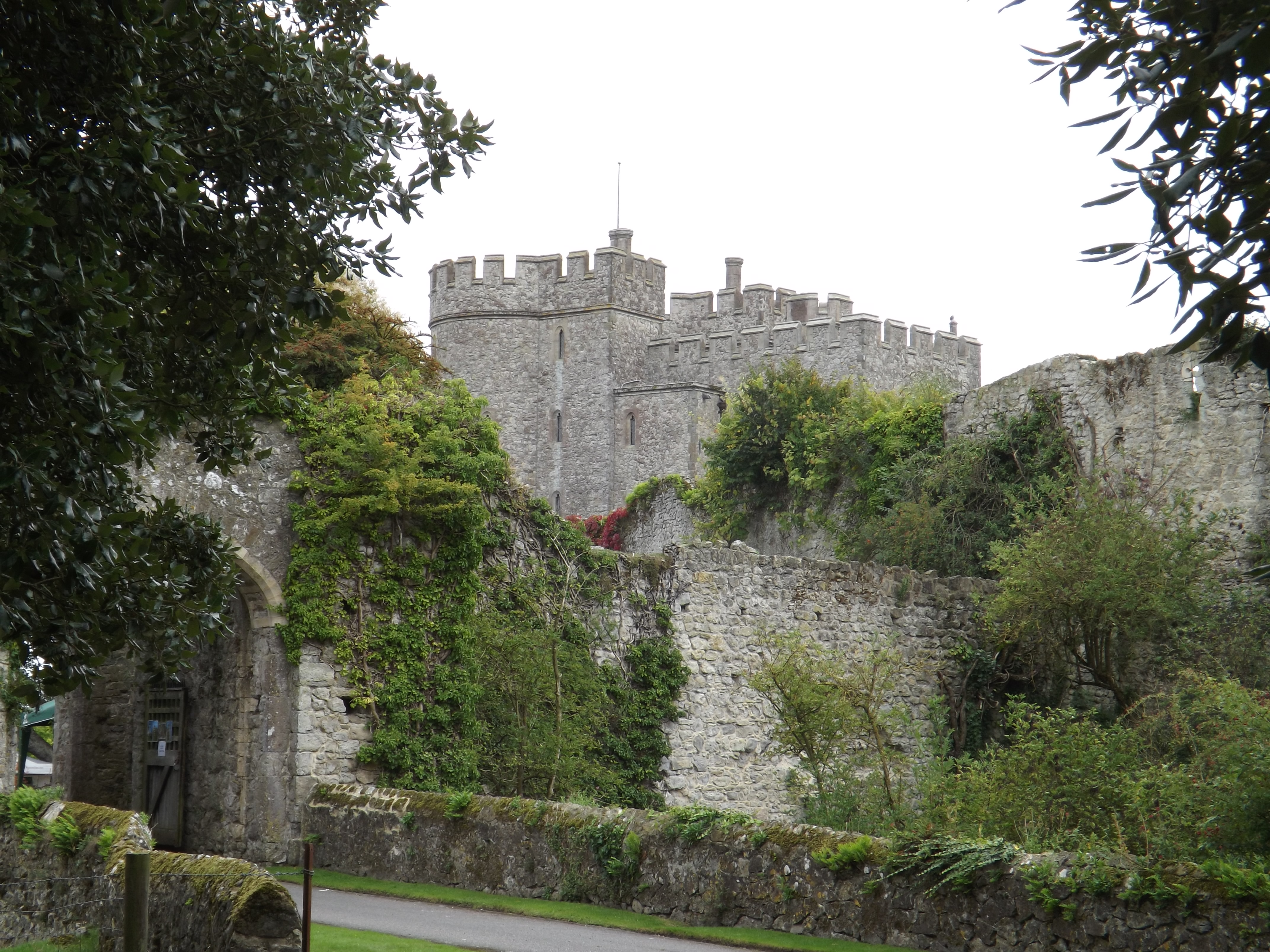 The keep of Saltwood Castle over its walls